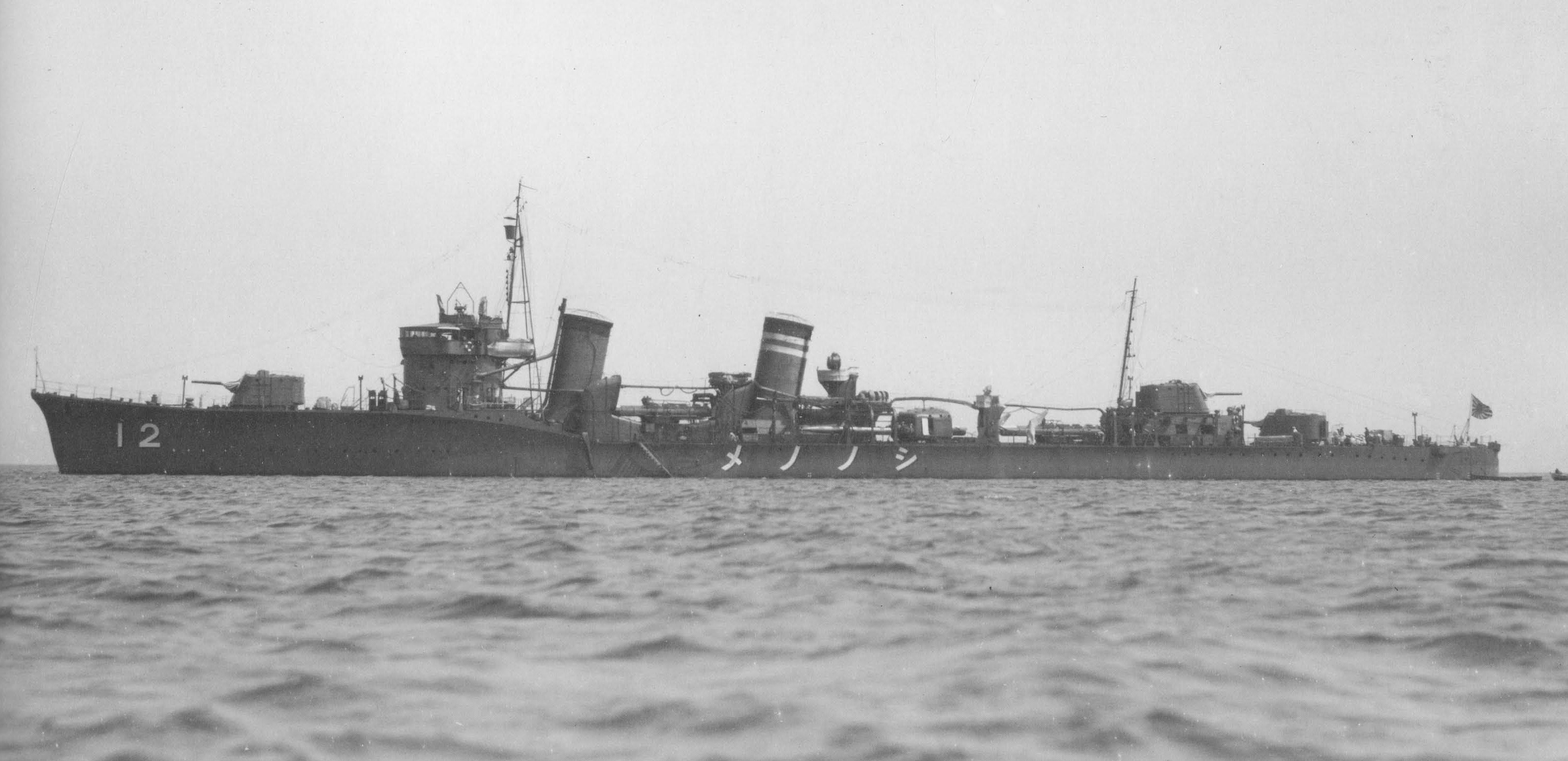 Imperial Japanese Navy destroyer Shinonome, the second Japanese warship to bear that name